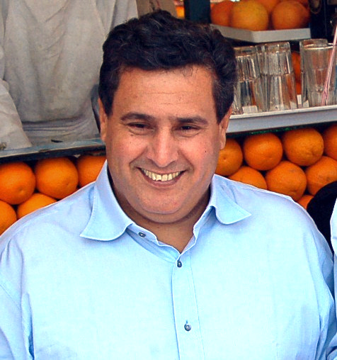 Cropped version